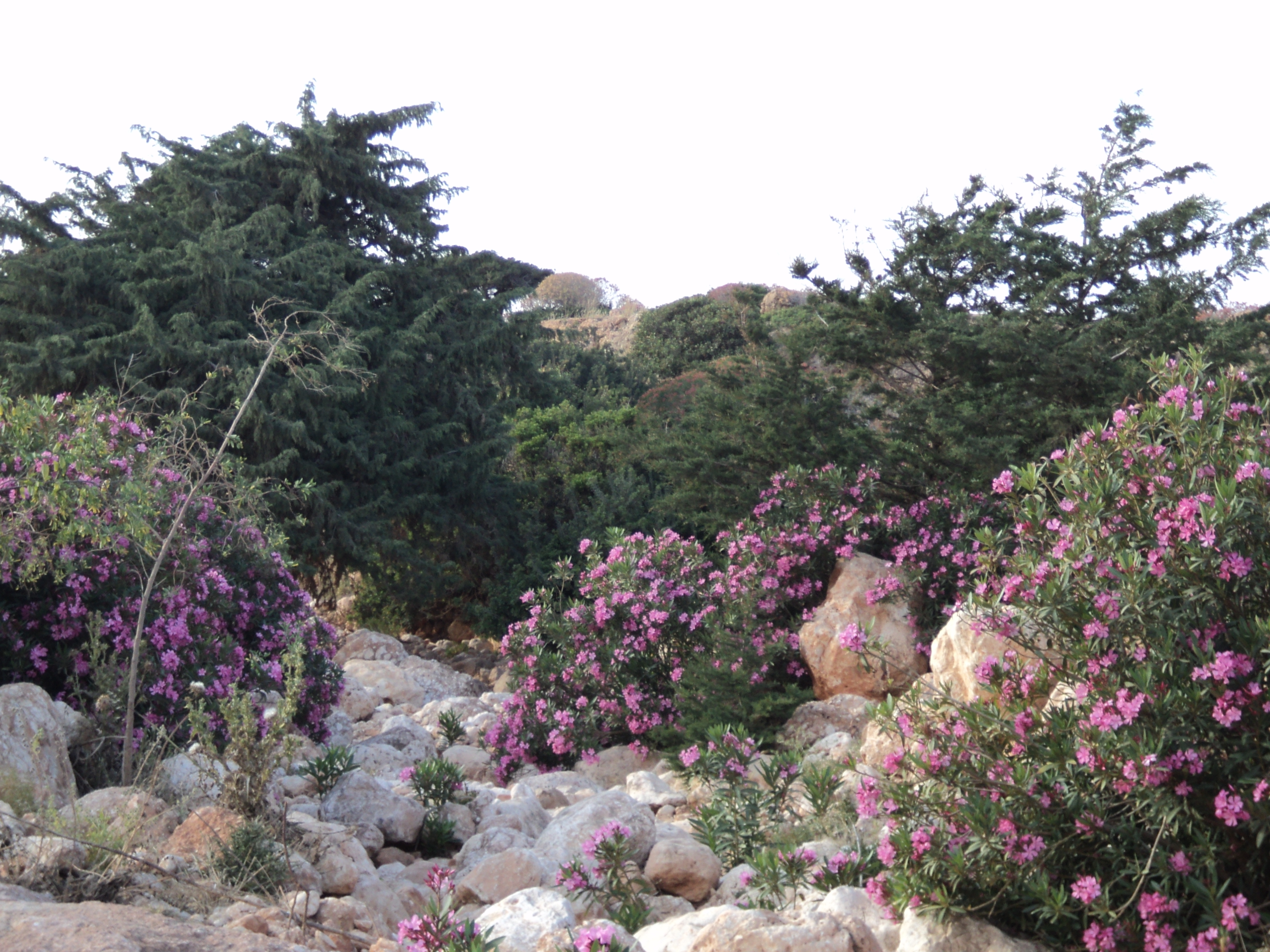 A wadi west of the Libyan town of Susa, Libya. Nerium oleander shrubs in flower; Cupressus sempervirens trees behind. Ænglisc: وادي يقع غرب مدينة سوسة في ليبيا.